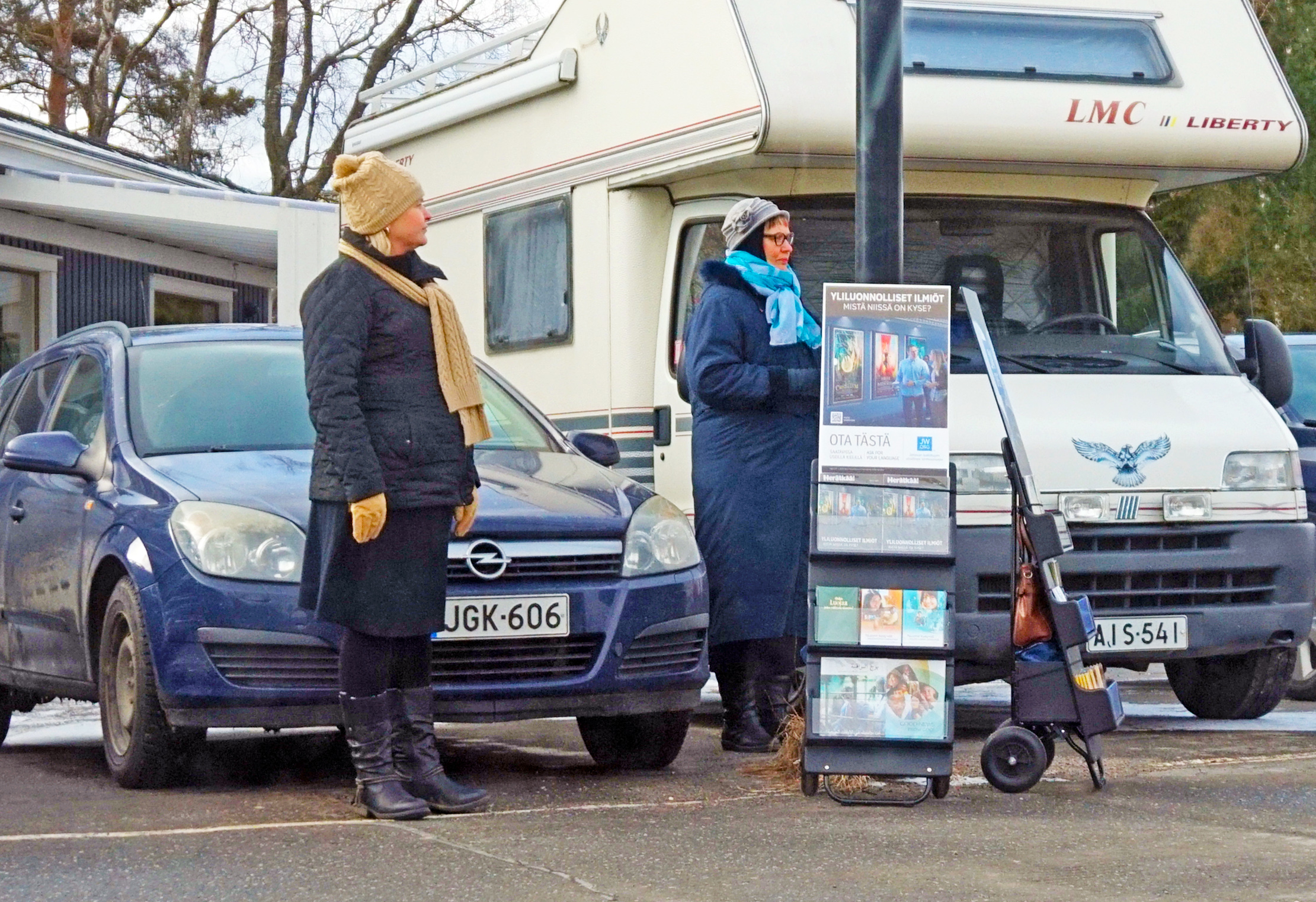 Jehovah's Witnesses in Tuuri, Finland.This photograph was taken with a Sony ILCE-5000